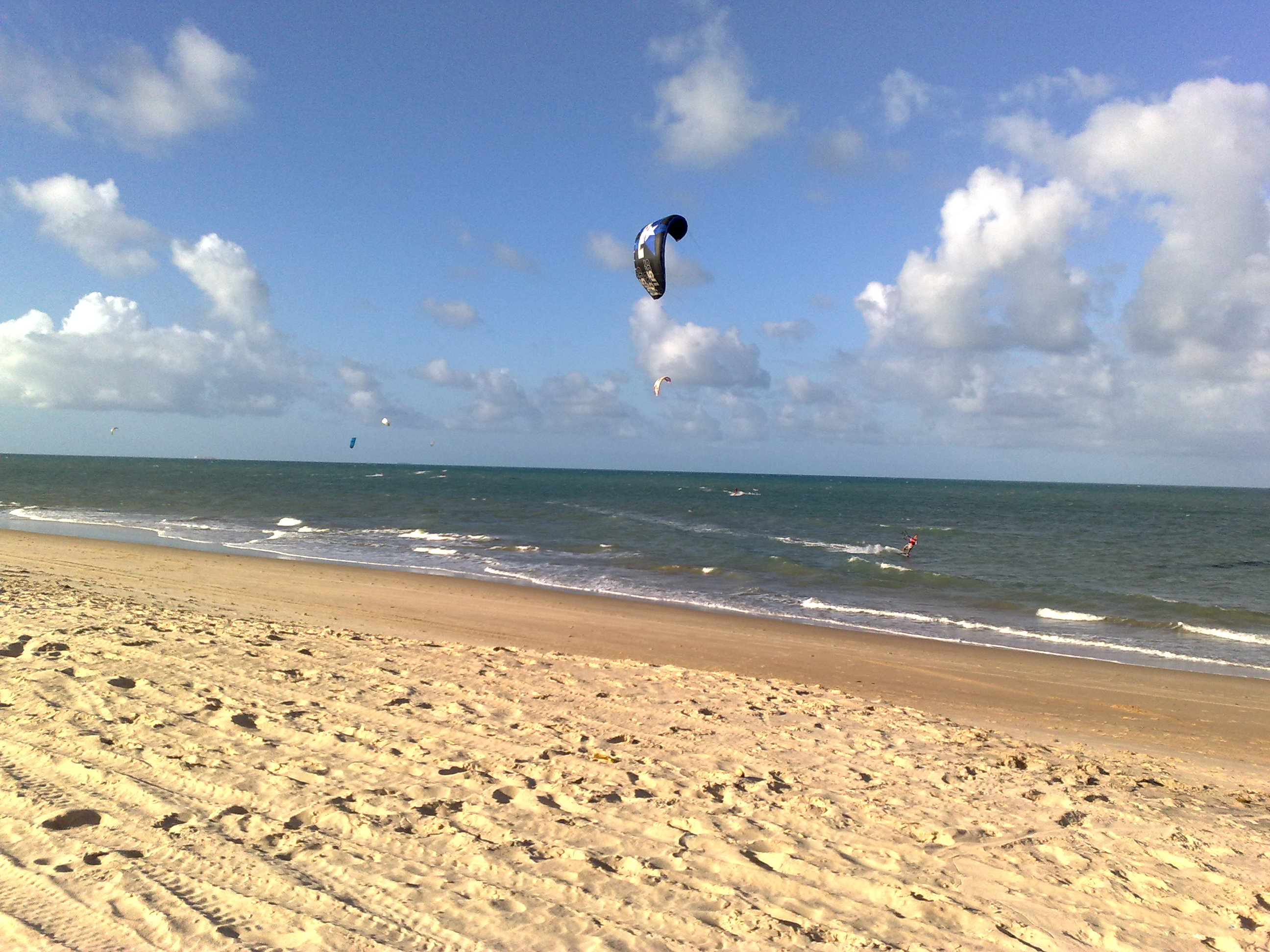 Kitesurfing at Cumbuco Beach (15 miles from Fortaleza - Brazil)